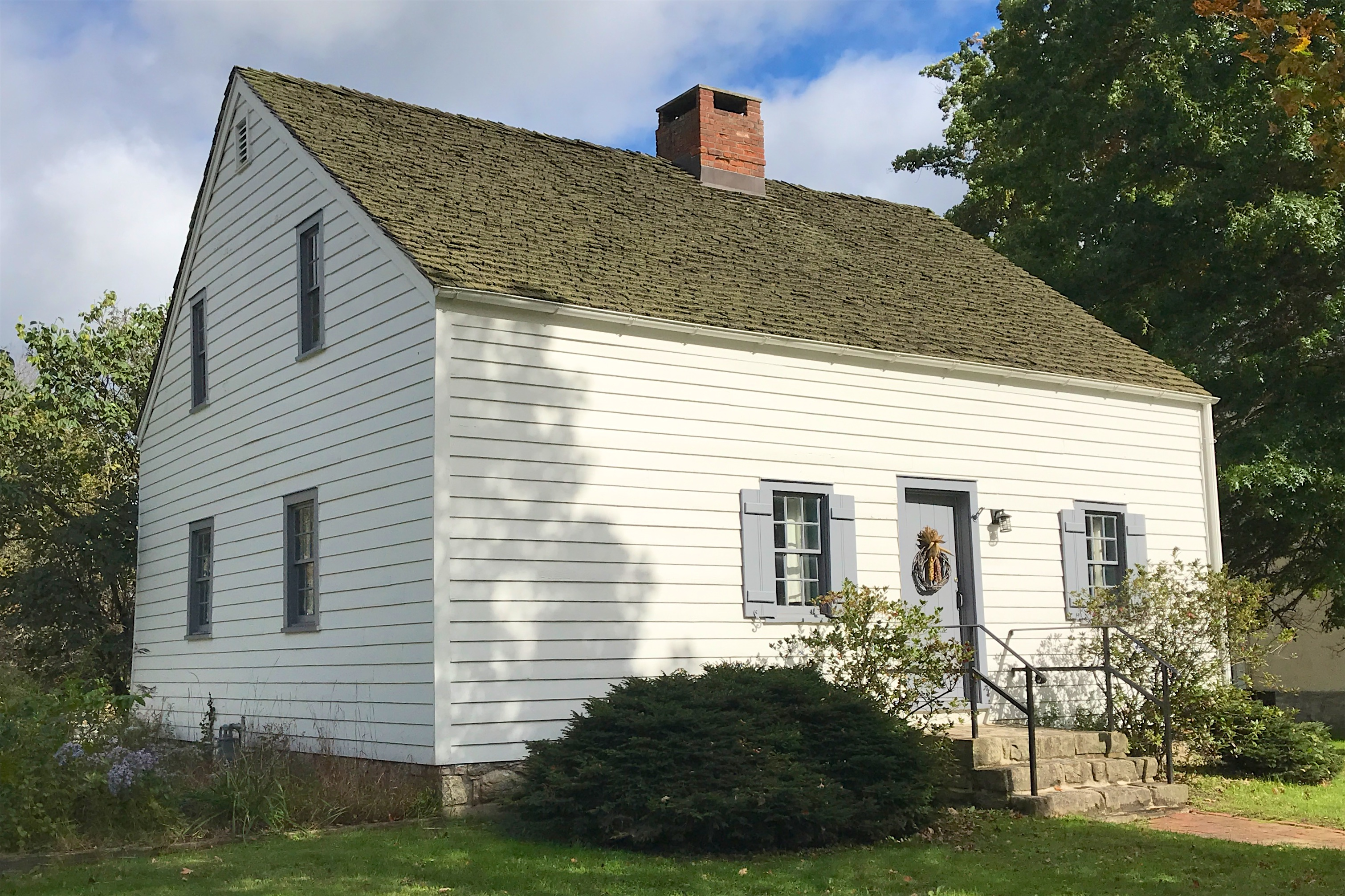 The Silas Riggs House in Ledgewood, New Jersey. Built circa 1805 date QS:P,+1805-00-00T00:00:00Z/9,P1480,Q5727902. Also contributing property #2 of the Ledgewood Historic District.